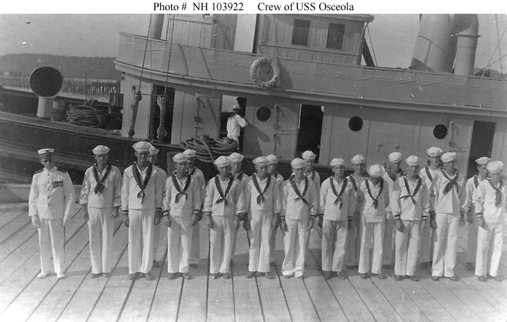 Osceola (Fleet Tug # 47) crew members pose beside the ship, circa the late 1910s or early 1920s. The original image was printed on postal card ("AZO") stock.